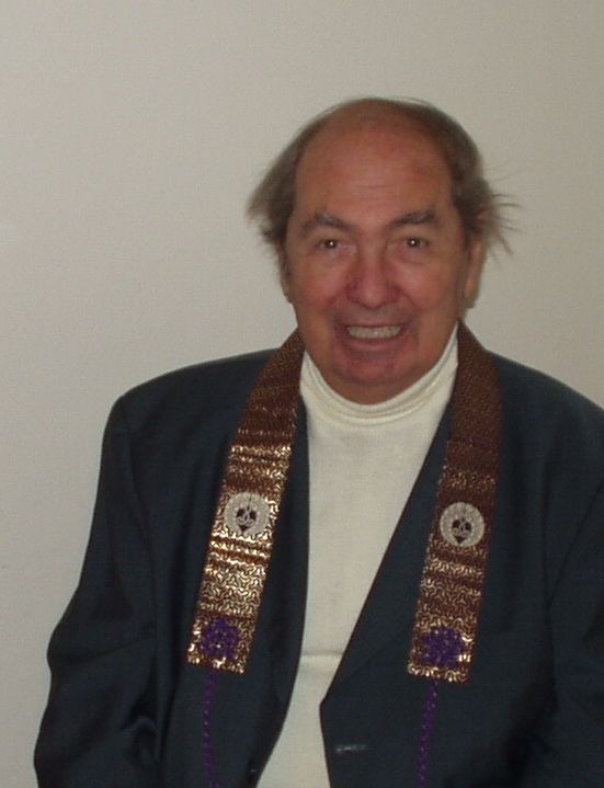 Friedrich Fenzl, 2006 Photograph by Gakuro